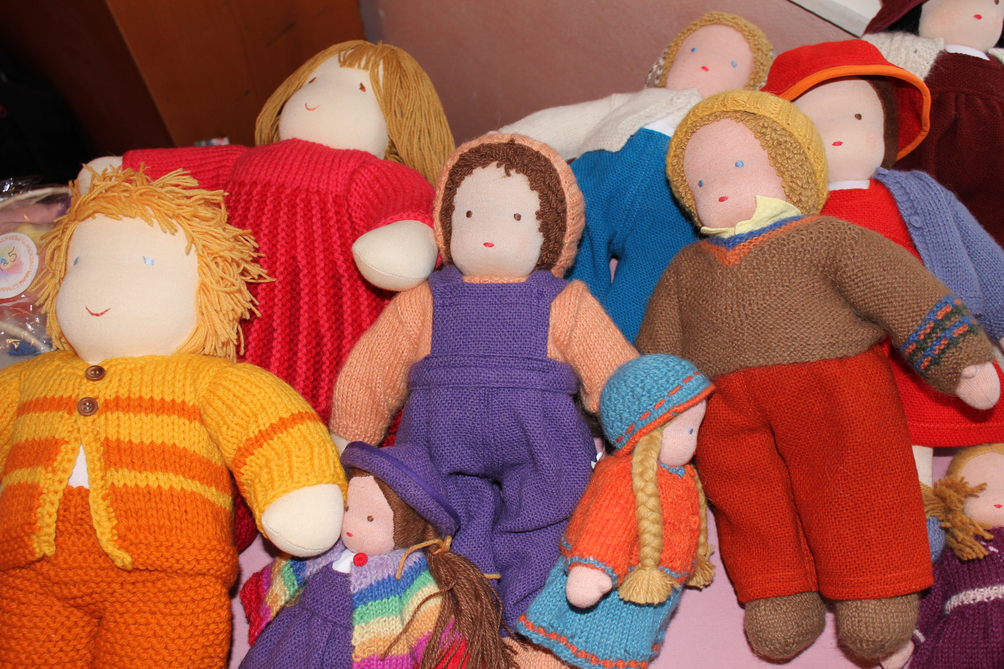 Handmade dolls from the Andes Mountains, Peru.